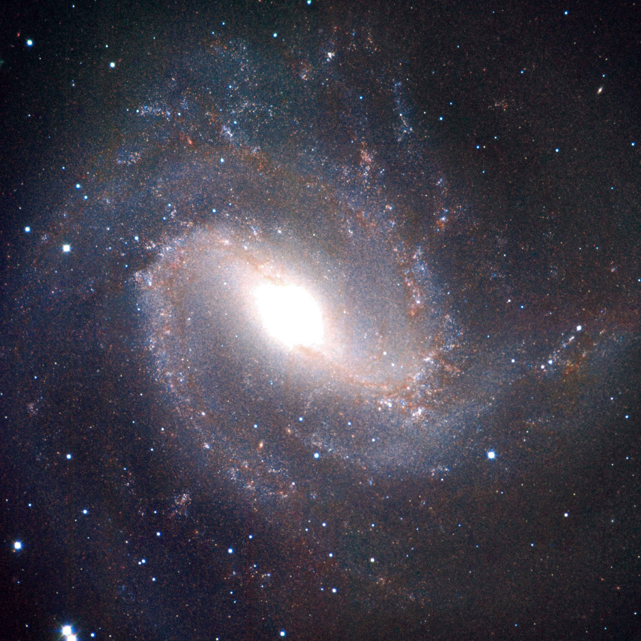 The image is a false-colour infrared photo of the nearby barred spiral galaxy Messier 83 . It is based on the combination of three images obtained in the Ks- (wavelength 2.2 µm), J- (1.2 µm) and I-bands (0.8 µm), respectively. ID phot-32a-01 Press Photo 32/01 Size 2200 x 2200 Credit ESO